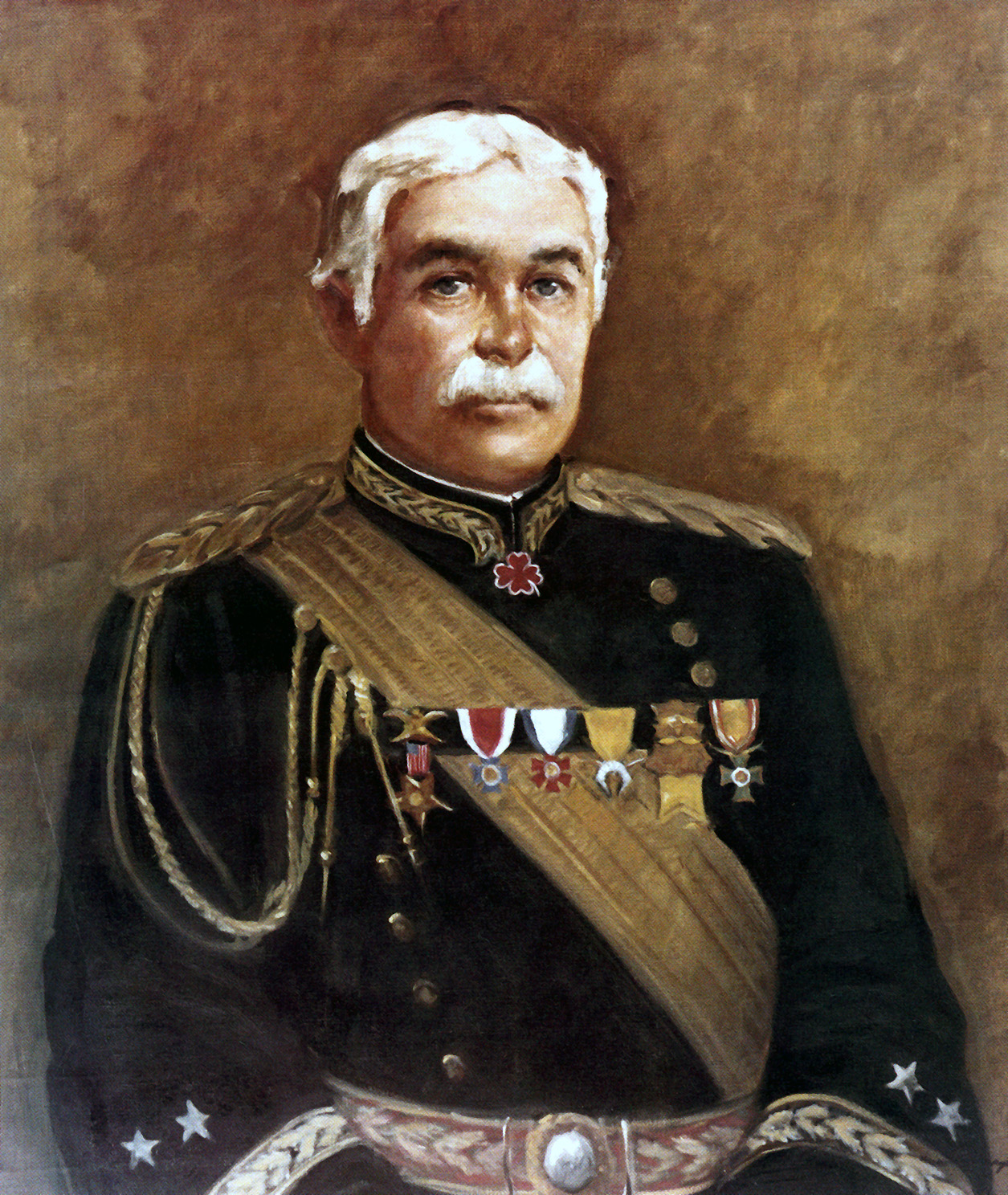 General Samuel B. M. Young, official portrait